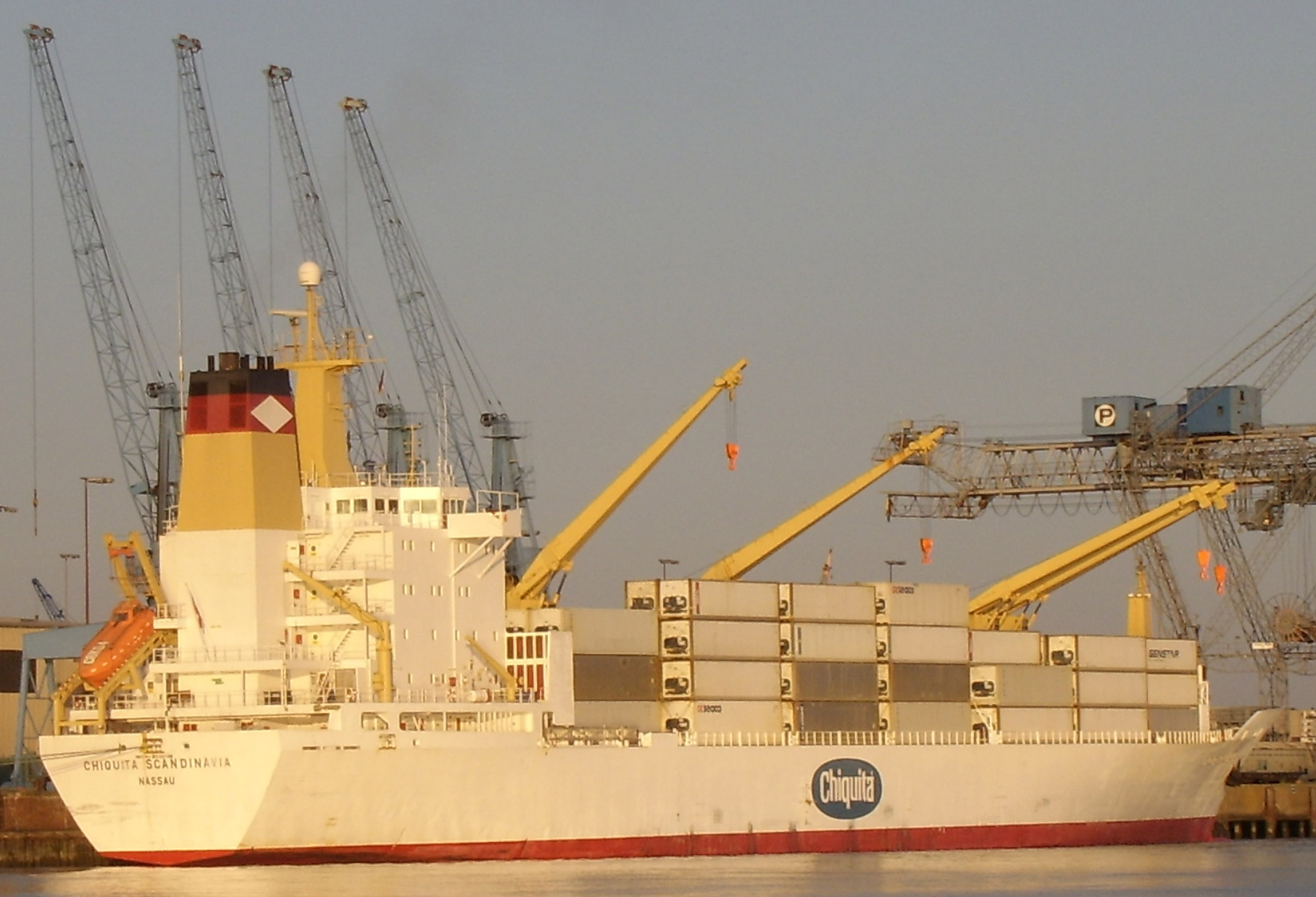 Chiquita Scandinavia in Bremerhaven IMO Number: 9030149 MMSI Number: 308126000 Callsign: C6KD4 Length: 159 m Beam: 24 m